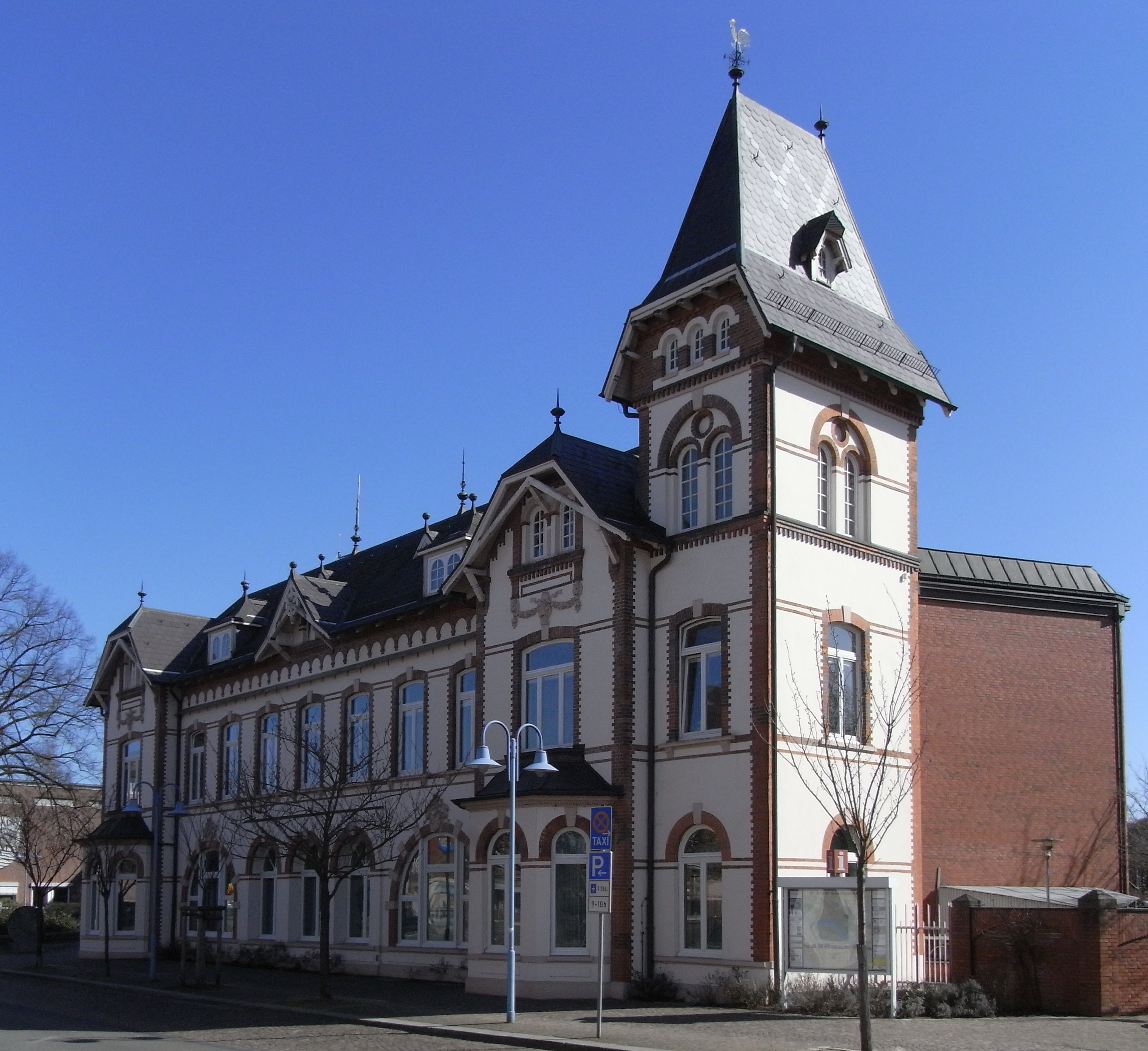 Central police station of Geeshacht, Schleswig-Holstein, Germany.